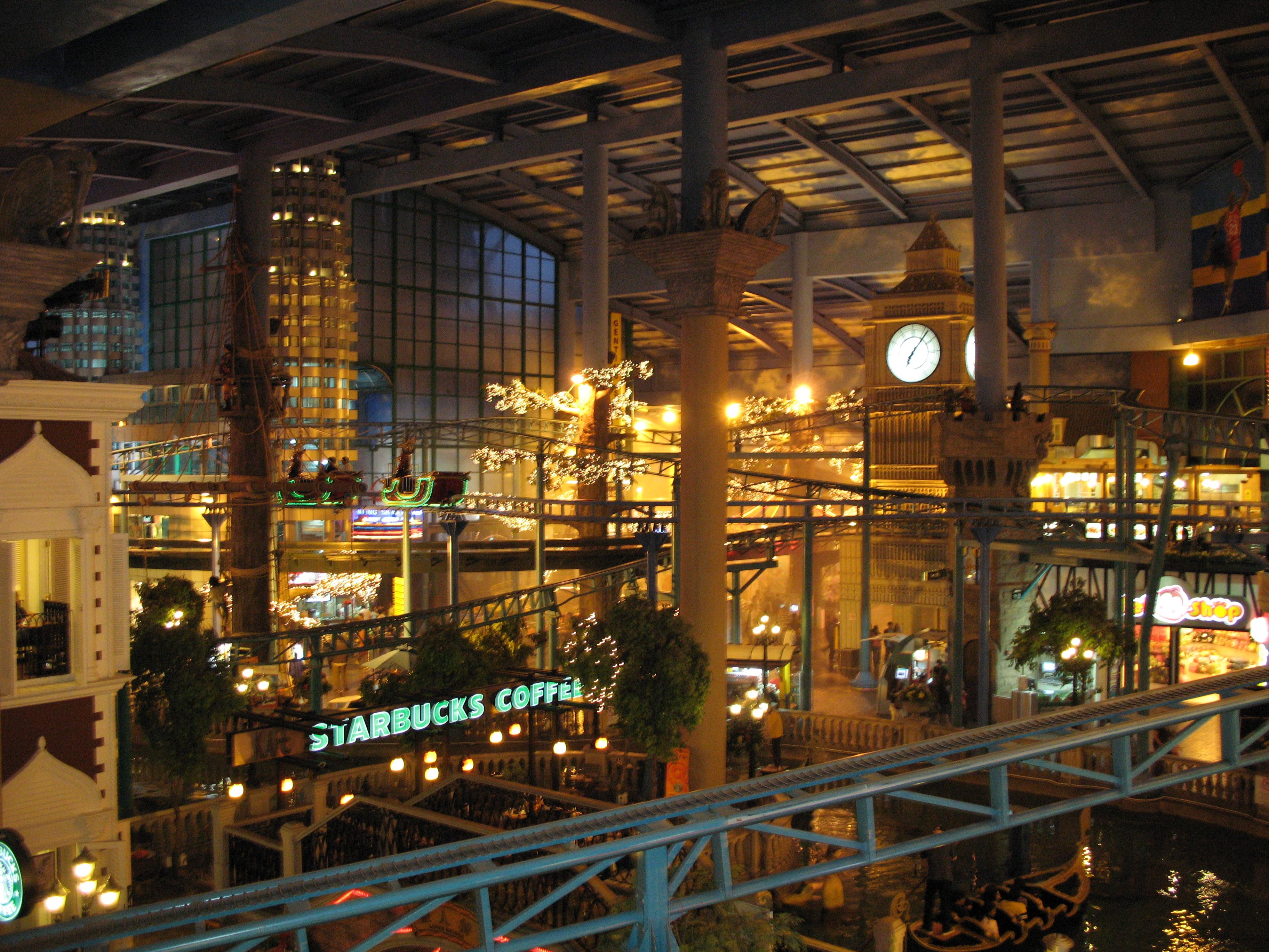 Inside First World Plaza, Genting Highland. I took this picture on October, 2007.